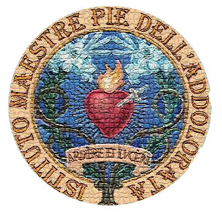 Embroidering with Sisters of Our Lady of Sorrows emblem (Maestre Pie dell'Addolorata)